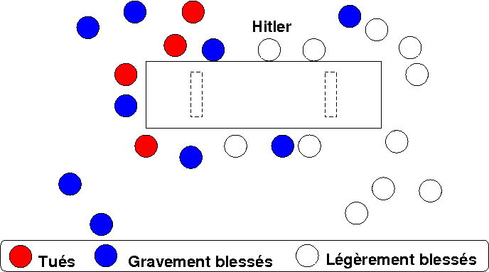 Placement and injuries of persons present during the attack of July 20, 1944 against A. Hitler.